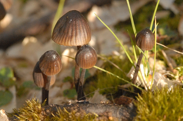 Mycena spec. from Commanster, Belgium. The determination of the species shown in this picture has been verified.